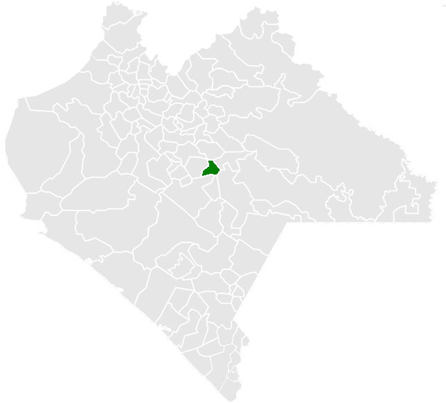 Map of the Municipalty of Amatenango del Valle in the State of Chiapas, México.